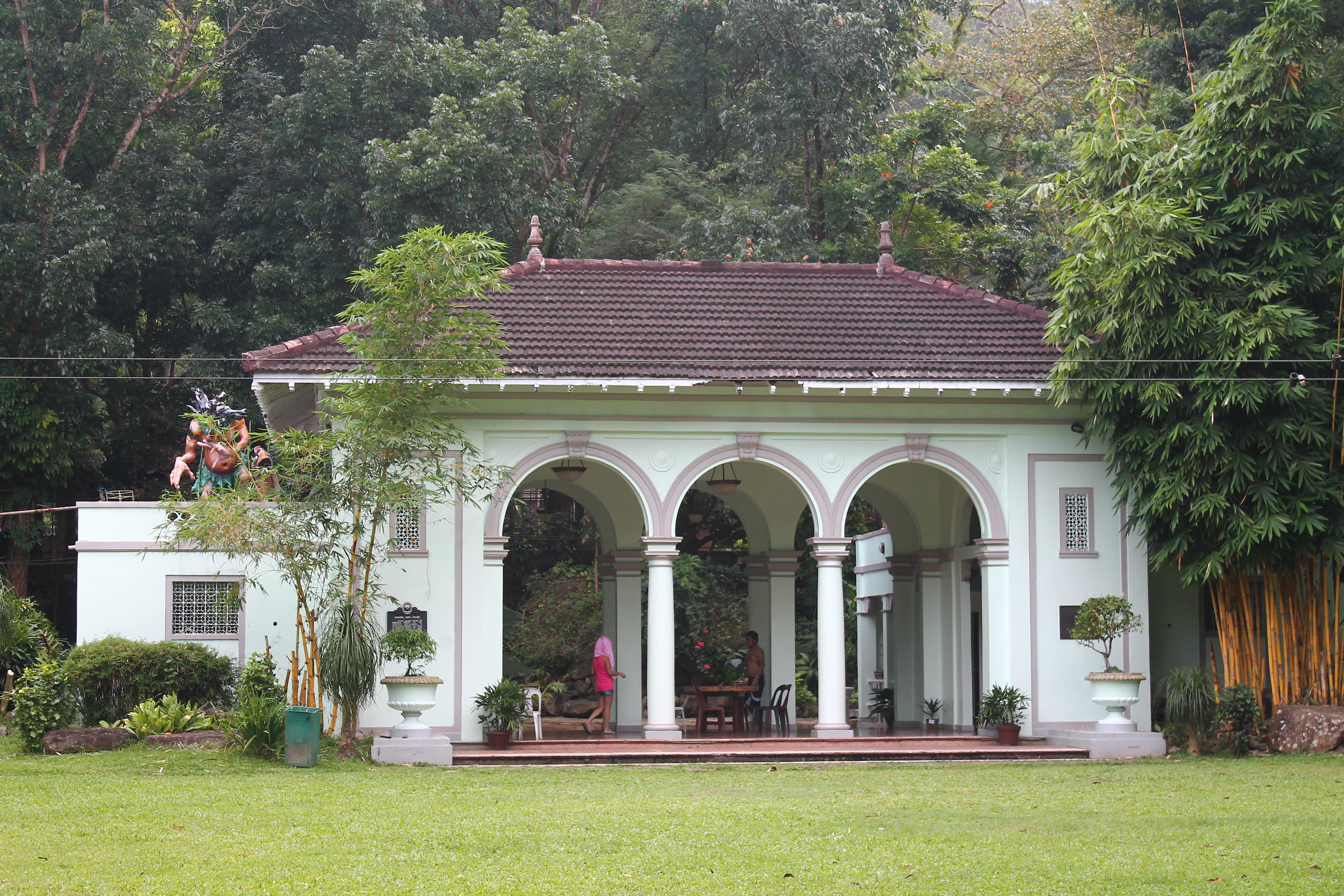 Located in Mambukal Resort, Murcia, Negros Occidental